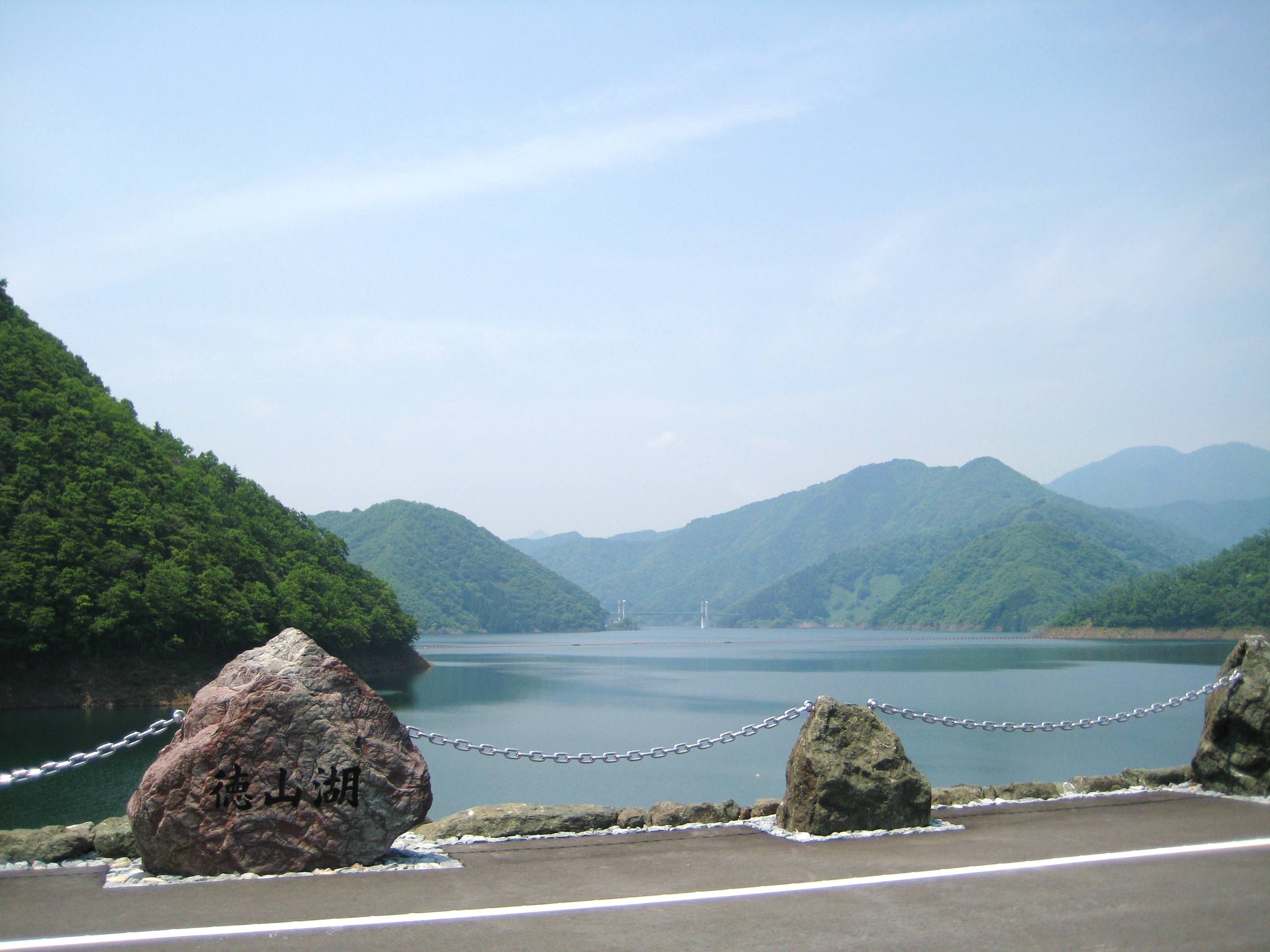 Tokuyama Dam lake monument.